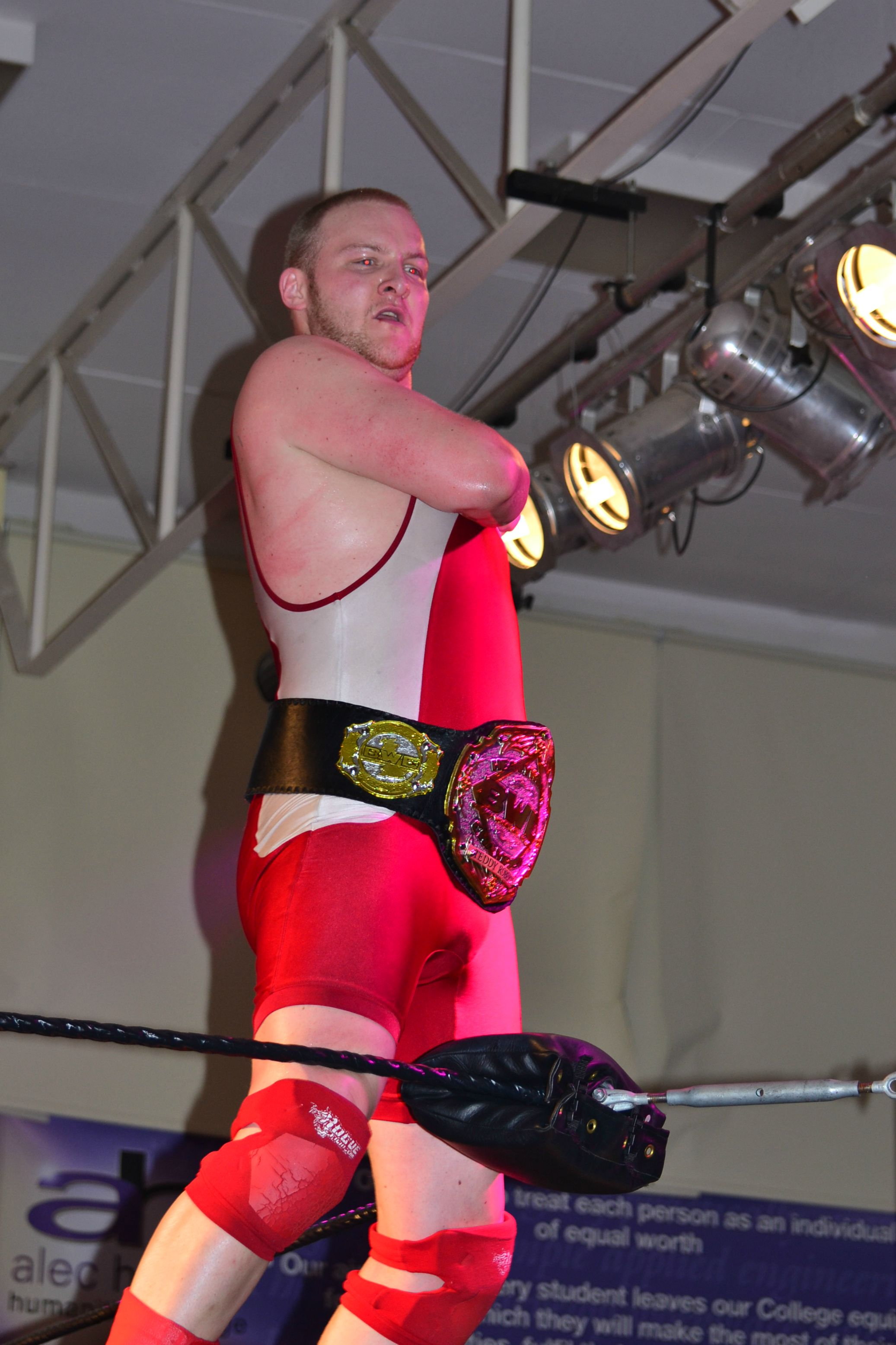 Jedrek Grabowski aka Jonathan Ellis having won the BWE world title September 24th 2011